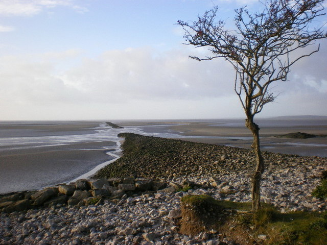 Jenny Brown's Point What looks like a man made is for all I know,a natural feature, but it could have been built, as a training wall for the Kent Channel which moves around Morecambe Bay. Compare Google Earth and the OS 97 map, the channel seems to have moved from Grange-Over-Sands to the Silverdale side of Morecambe Bay in the last few years